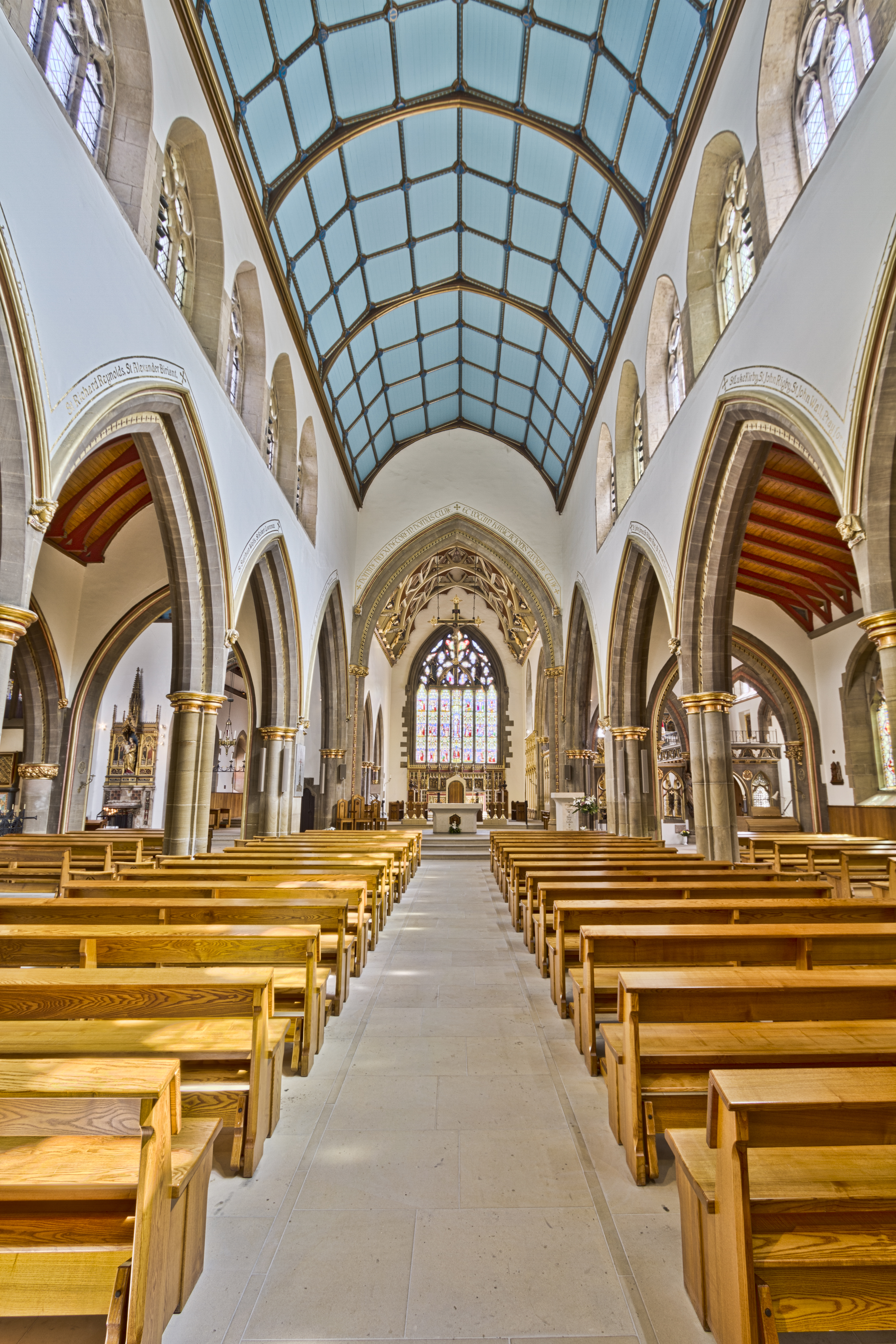 Here is an hdr photograph taken from the Cathedral Church of Saint Marie. Located in Sheffield, Yorkshire, England, UK.